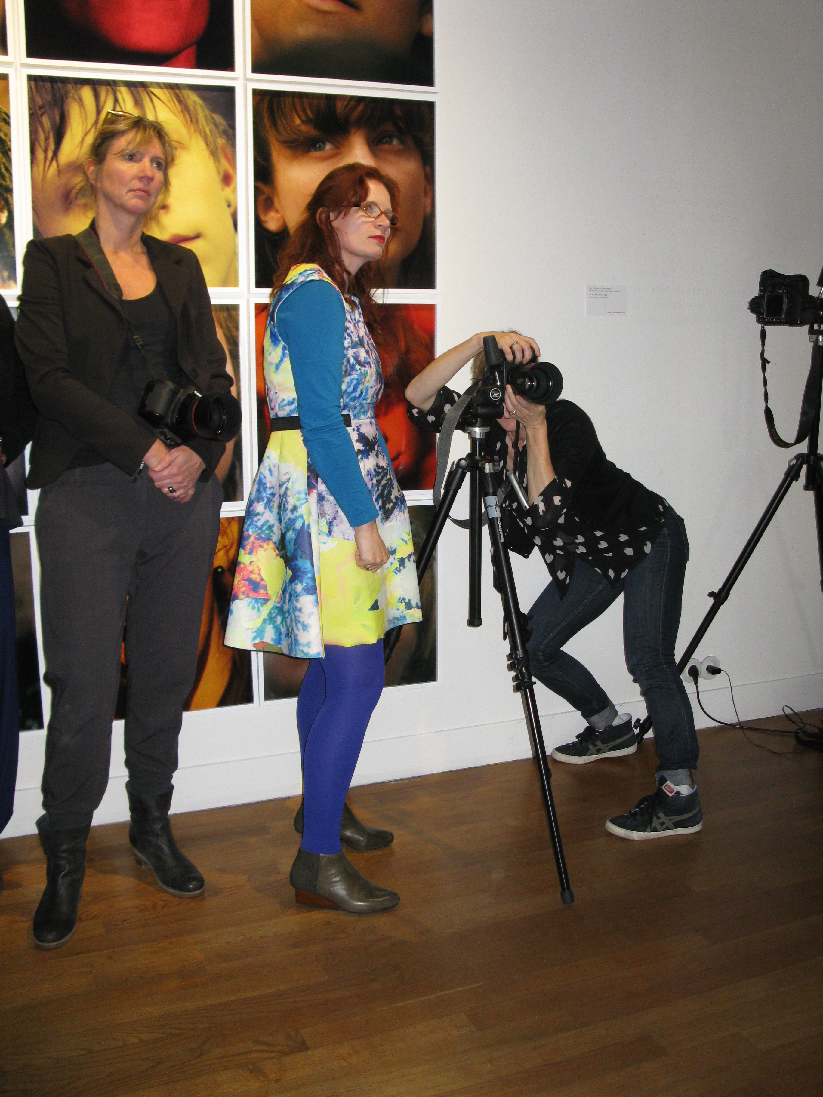 The Dutch photographer Hellen van Meene (center) teaching on a photo workshop 'Museumnacht Amsterdam 2012' (Museum night Amsterdam 2012) at the house 'Marseille'.